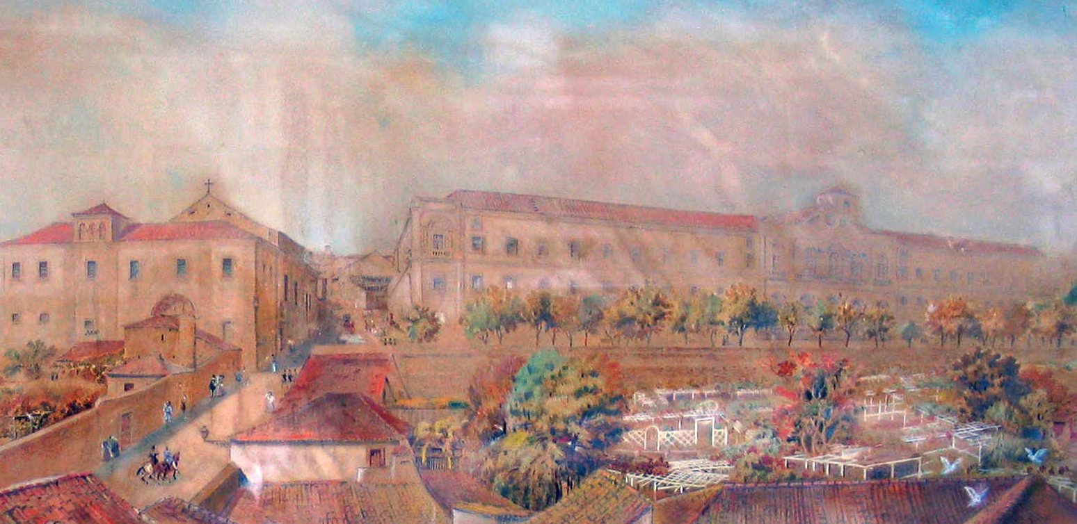 The Convent of the Holy Crucifix ("Convent of the Little French Nuns"), and the Palace of the Cortes (Parliament), in Lisbon, Portugal, in a c. 1853-59 painting attributed to Jan Lewicki.